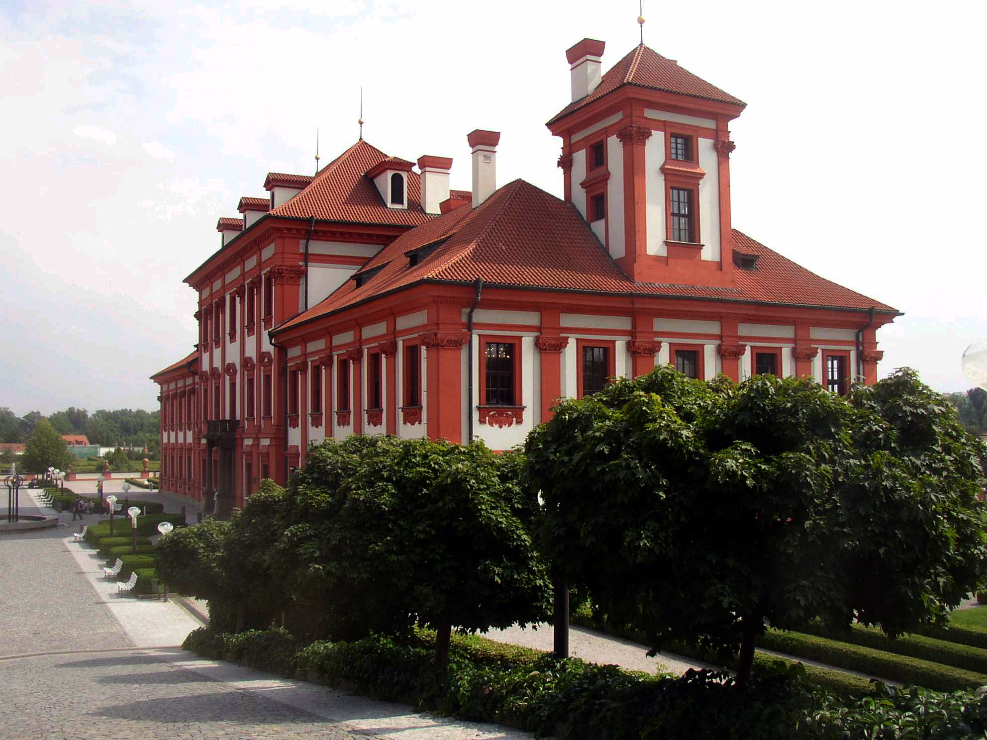 Troja castle, Prague, Czech Republic